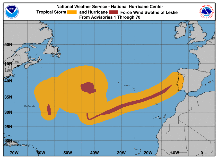 Cumulative Wind History of Hurricane Leslie (2018). In organde the tropical storm winds and in red the hurricane force one.